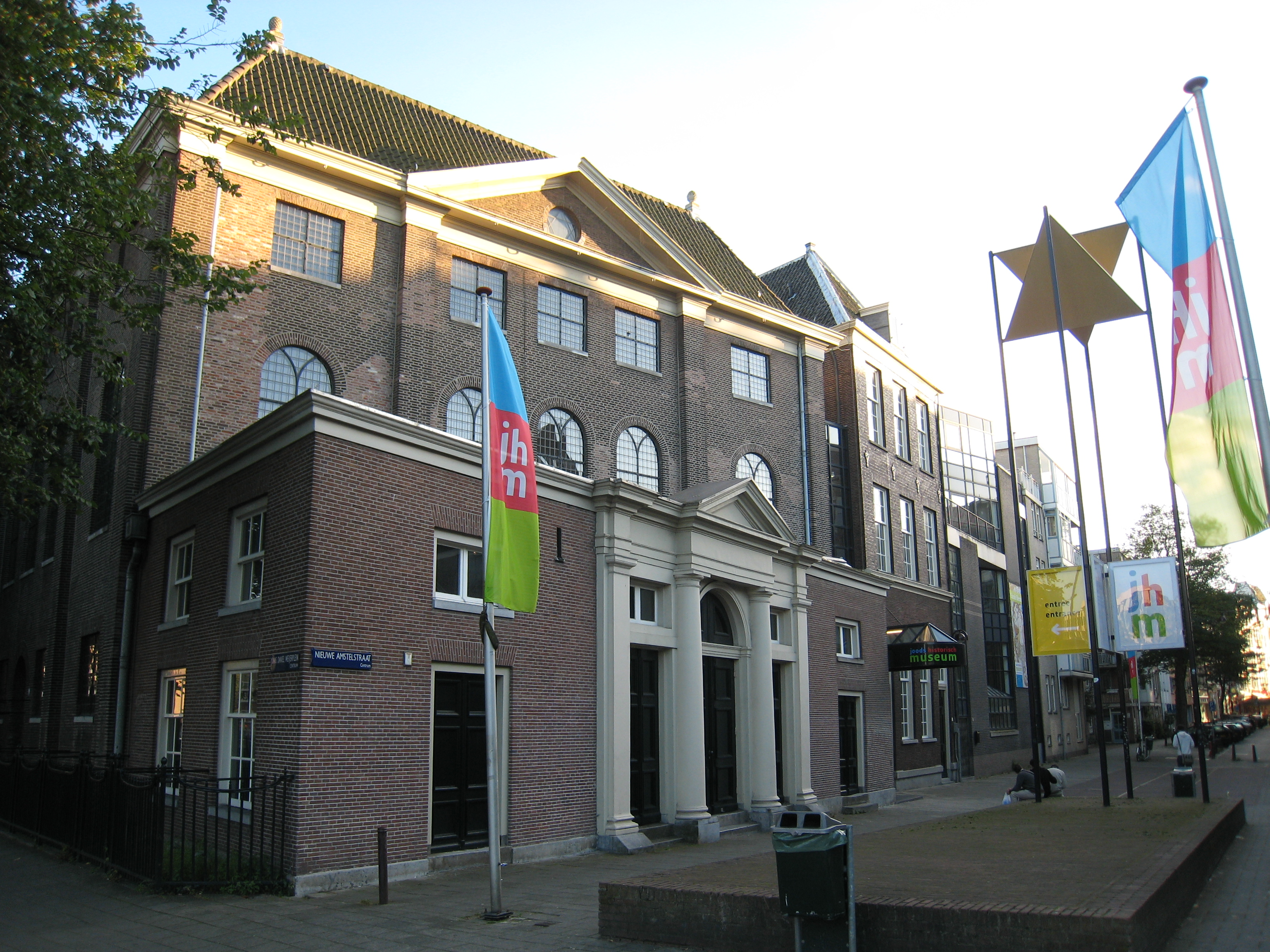 Joods Historisch Museum (Jewish Historical Museum) in Amsterdam, Holland.